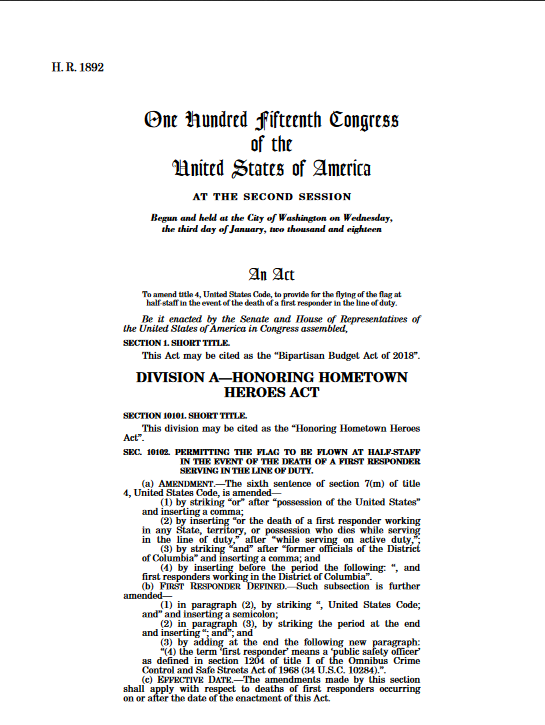 H.R.1892 - Bipartisan Budget Act of 2018